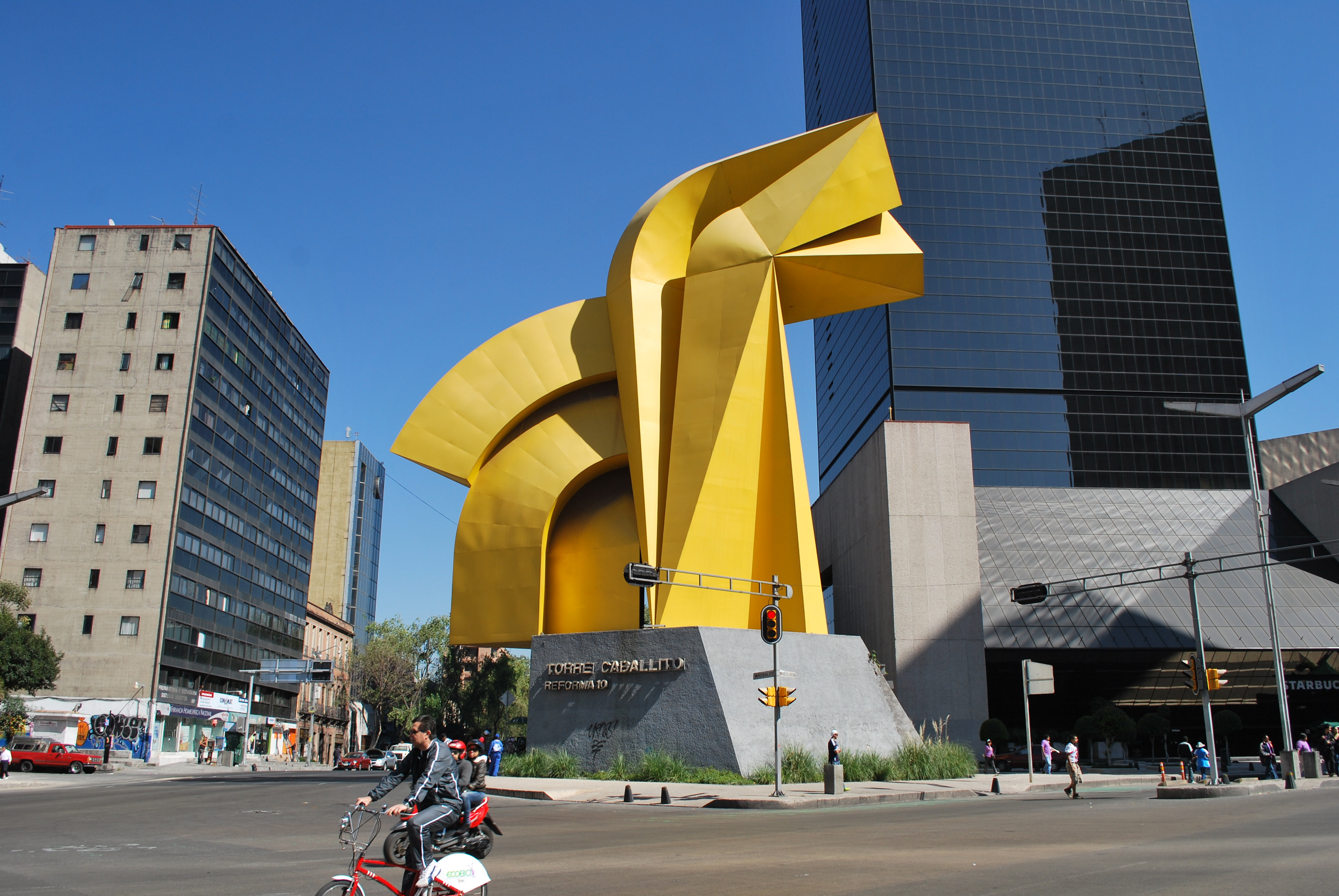 Sculpture in front of the Torre del Caballito in Mexico City